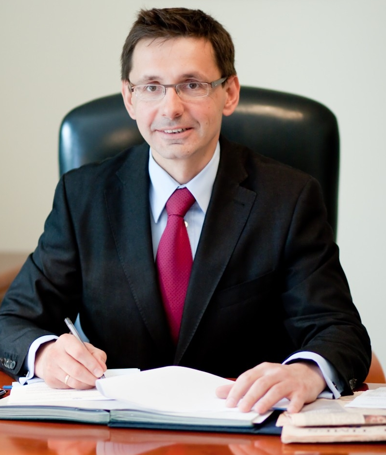 Mikolaj Budzanowski - Under-Secretary of State, The Ministry of Treasury